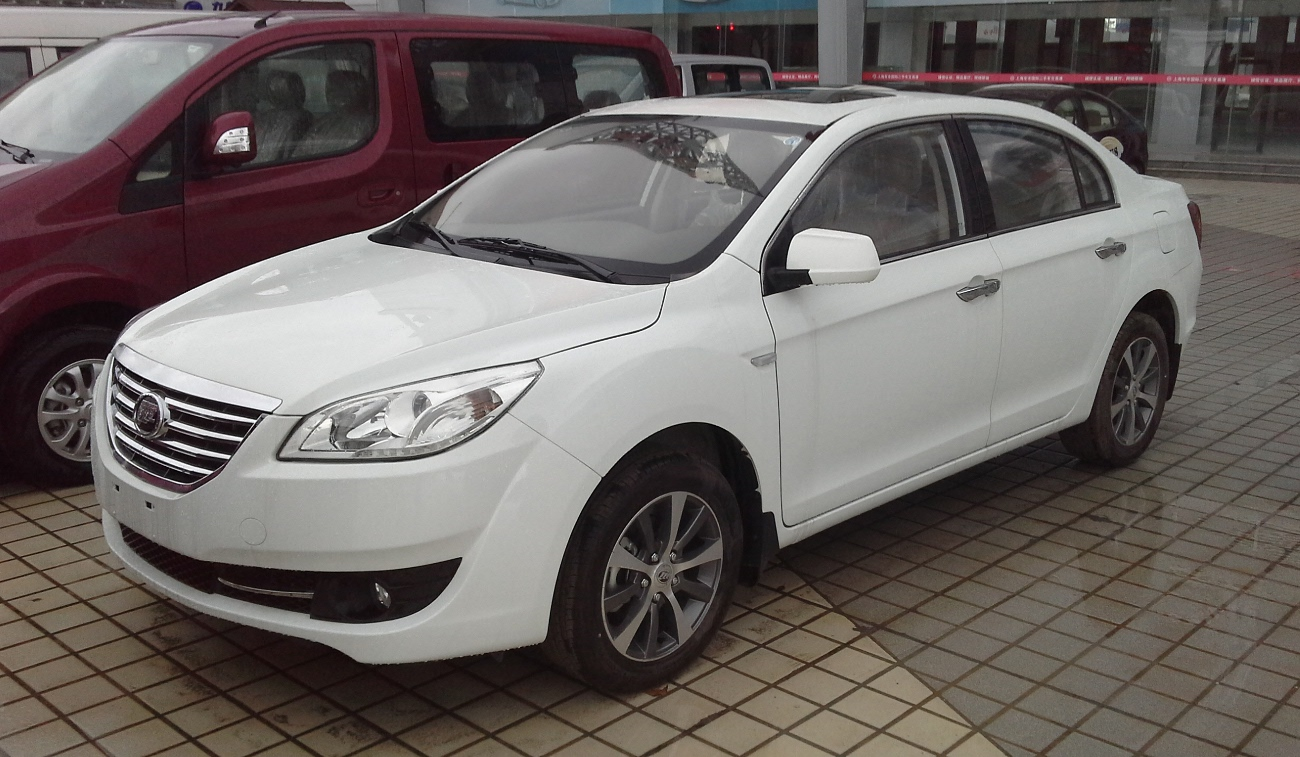 Lifan 720 photographed in Shanghai, China.